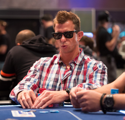 Shannon Shorr, Prague